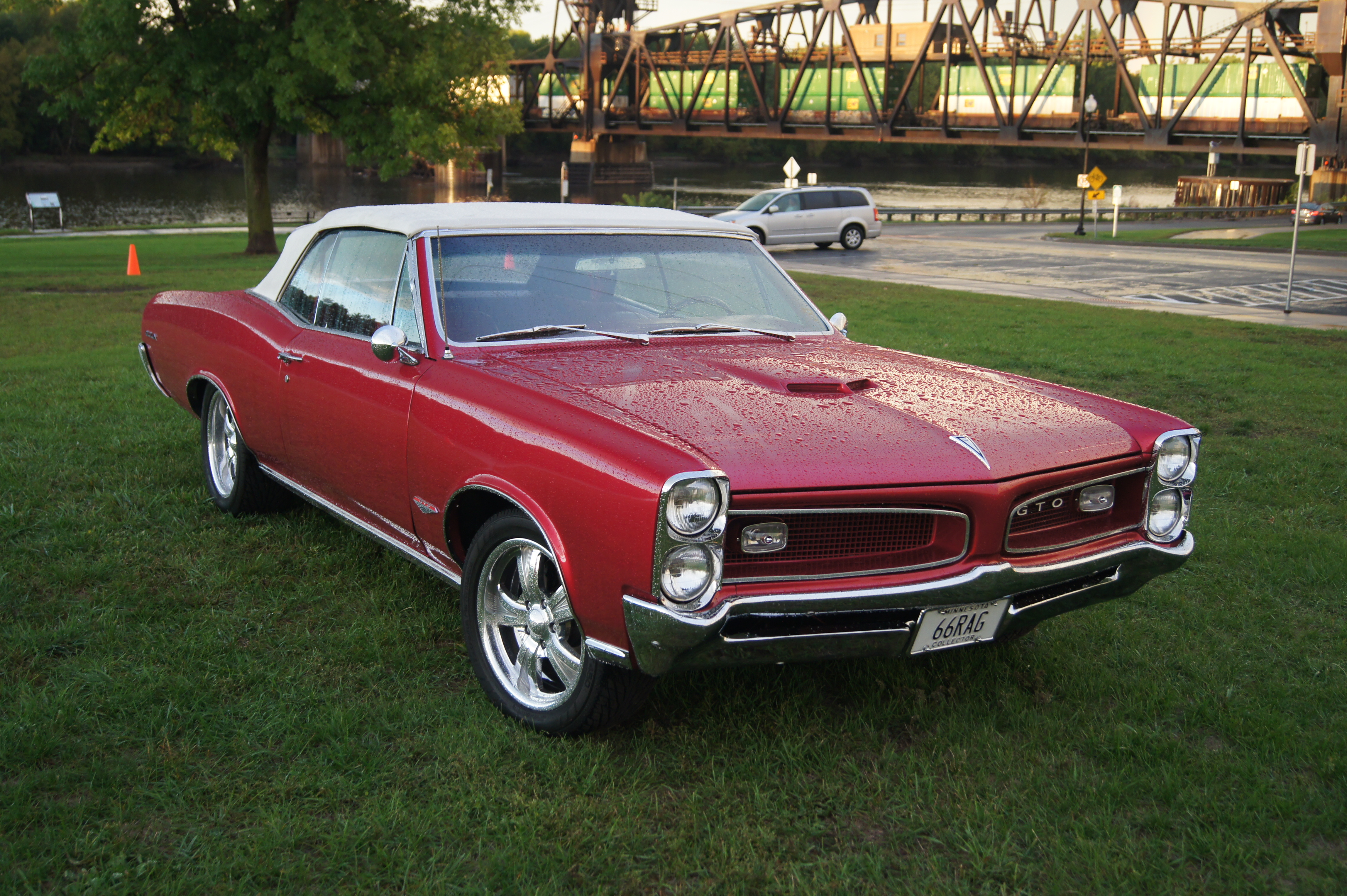 9th Annual Saturday Night Cruise-In September 20,2014 Hastings, Minnesota My second time to this event and the second time I got rained on. It was nice before and after the rain though. I did miss quite a few great cars that left before I could capture them, including a white 1962 Imperial that I caught a glimpse of at "Back to the 50's" More of my car pictures at my Flickr site